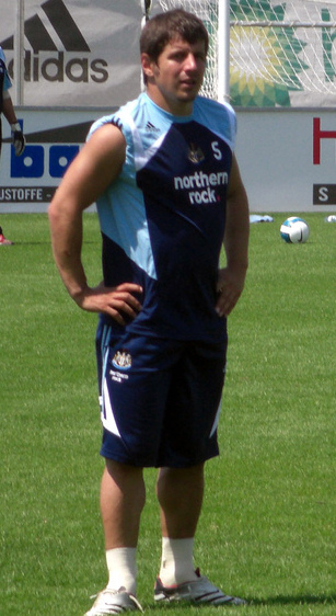 Emre and Derek Wright (physio) in training